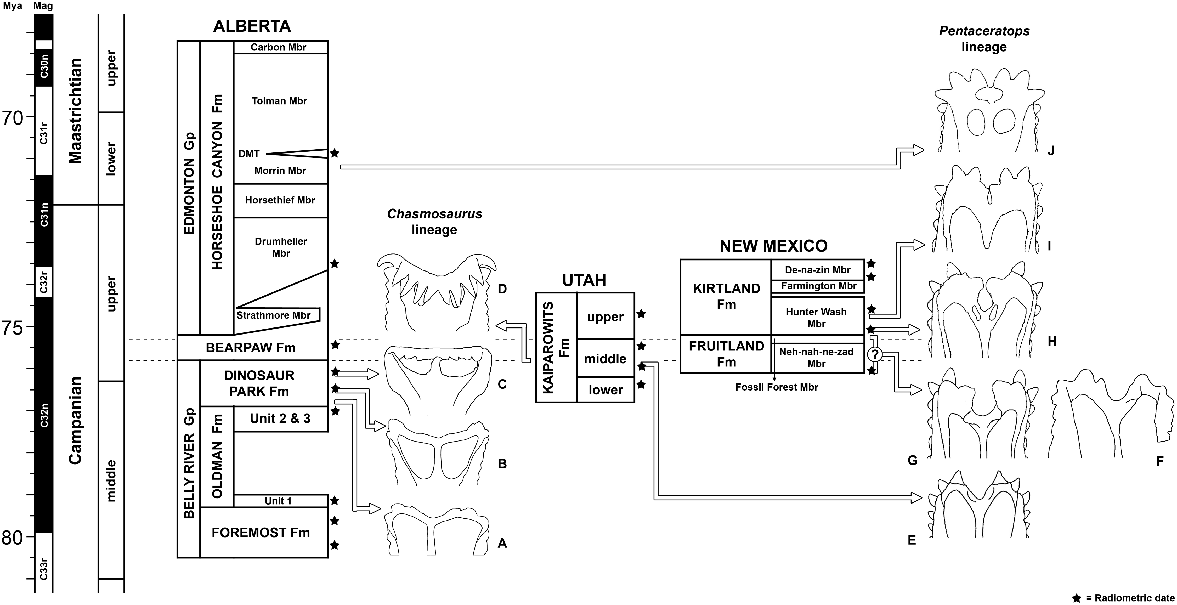 Stratigraphic positions of chasmosaurine taxa. Morphospecies of Chasmosaurus (A–D) and Pentaceratops (E–J) clades which do not overlap stratigraphically. These are hypothesized to form two anagenetic lineages which resulted from a cladogenetic branching event prior to the middle Campanian. (A) “Chasmosaurus russelli”, lower Dinosaur Park Fm, ~76.8 Ma. (B) Chasmosaurus belli, middle Dinosaur Park Fm, ~76.5–76.3 Ma. (C) Vagaceratops irvinensis, upper Dinosaur Park Fm, ~76.1 Ma. (D) Kosmoceratops richardsoni, middle Kaiparowits Fm, ~76.0–75.9 Ma. (E) Utahceratops gettyi, middle Kaiparowits Fm, ~76.0–75.6 Ma. (F), c.f. Pentaceratops sternbergii, unknown occurrence within “Fruitland Formation” ~76.0–75.1 Ma. (G) Aff. Pentaceratops n. sp., uppermost Fossil Forest Mbr, Fruitland Fm, ~75.1 Ma. (H) Navajoceratops sullivani, lowermost Hunter Wash Mbr, Kirtland Fm, ~75.0 Ma. (I) Terminocavus sealeyi, middle Hunter Wash Mbr, Kirtland Fm, ~74.7 Ma. (F) Anchiceratops ornatus, Drumheller to Morrin Mbr, Horseshoe Canyon Fm, ~71.7–70.7 Ma. Stratigraphic positions and recalibrated radiometric dates from Supporting Information 1 and Fowler (Chapter 2). Timescale from Gradstein et al. (2012). Specimens not to scale. Images adapted from Lehman (1998); Holmes et al., 2001; Sampson et al. (2010); Maidment & Barrett (2011); and Longrich (2014).van & Beikman (1963).